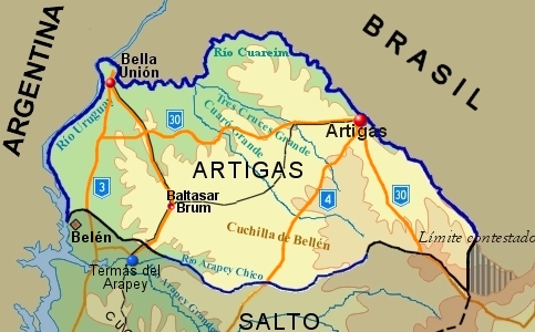 General map of Artigas Department, Uruguay.